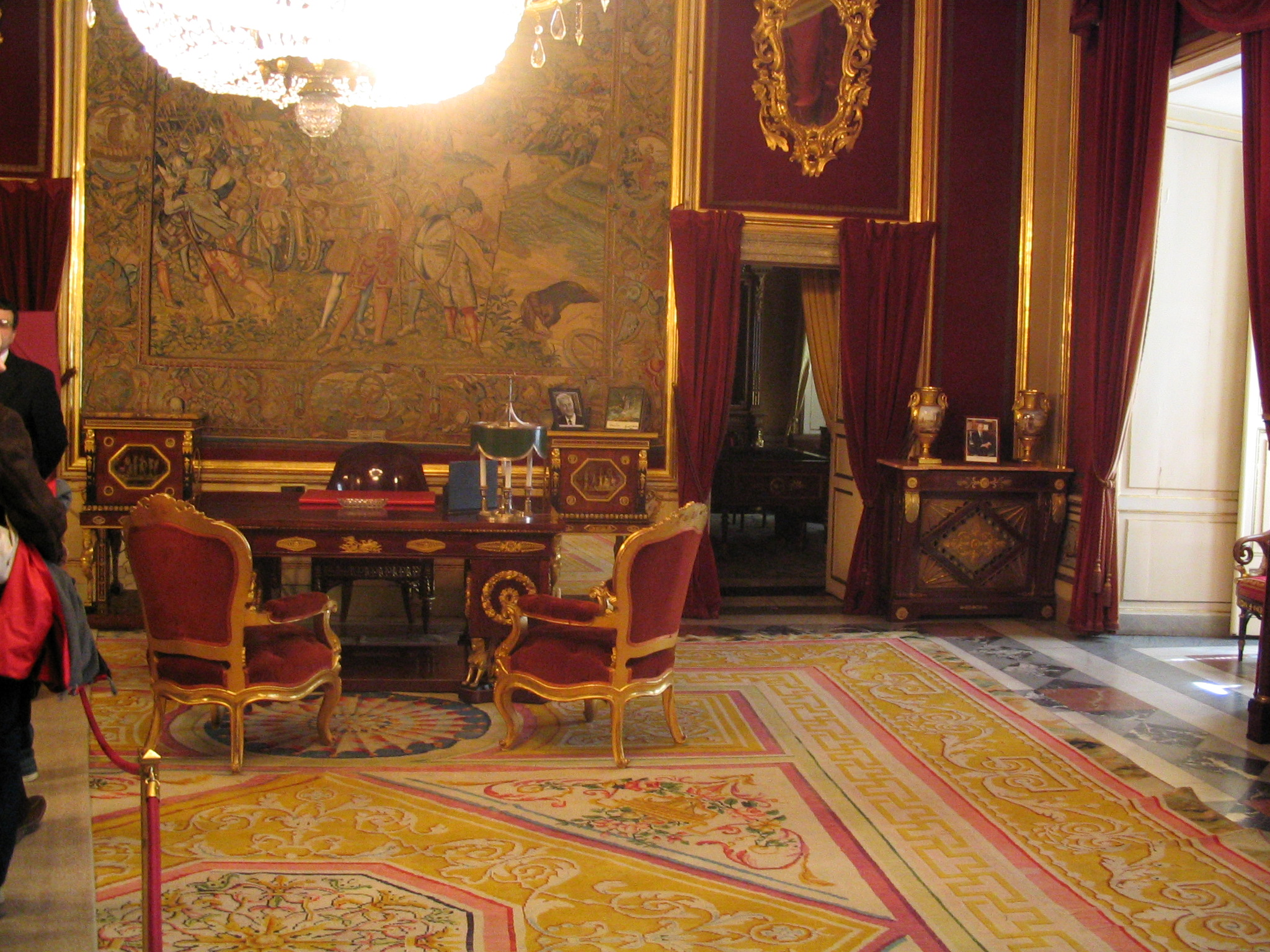 Royal Palace of El Pardo